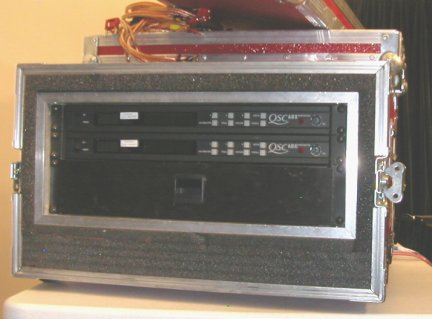 This is a photo I took of two QSC ABX Comparators racked up for travel. This is a product that is no longer offered for sale.